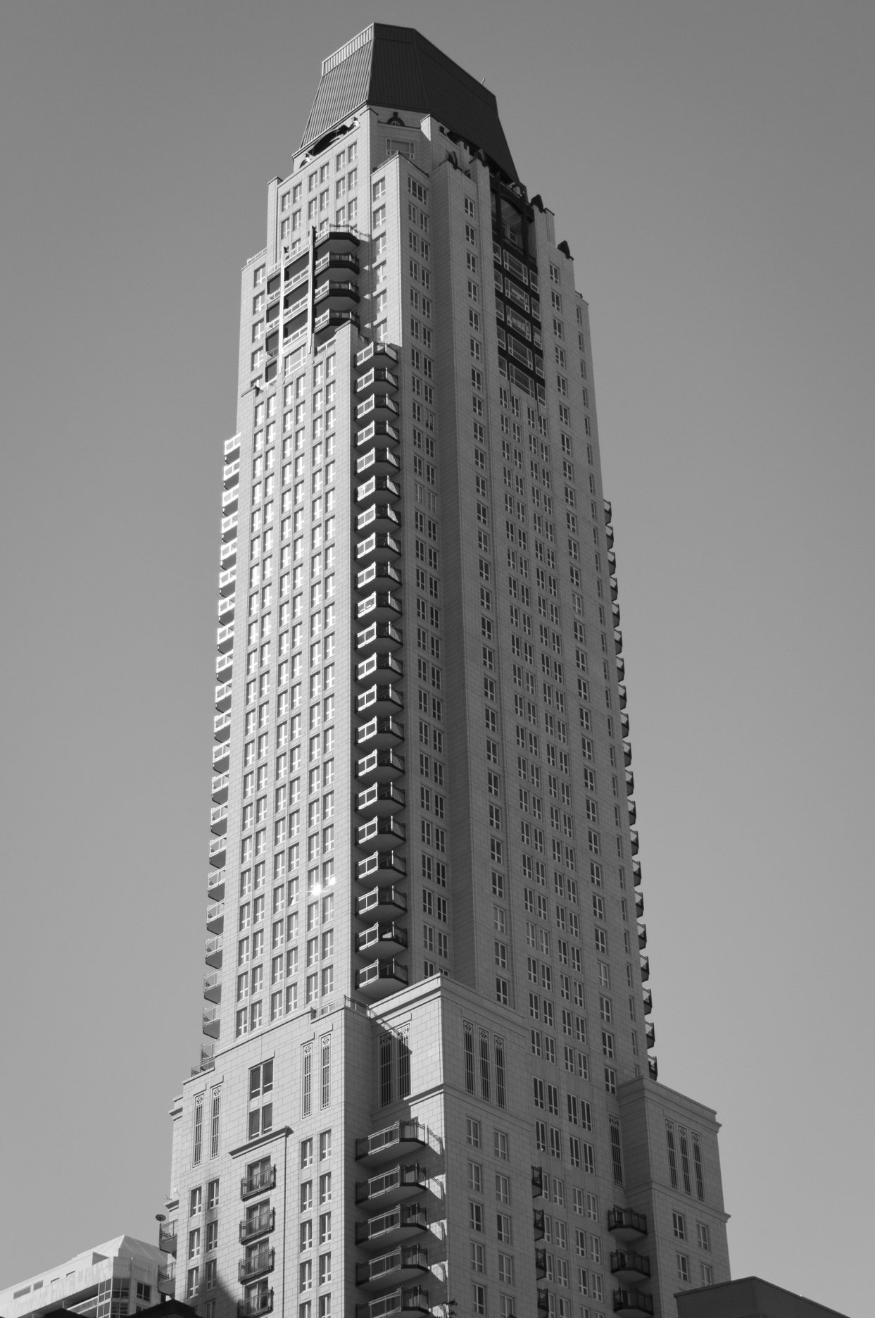 The Hotel Elysian is a new addition (completed in 2010) to Chicago's Gold Coast neighborhood.